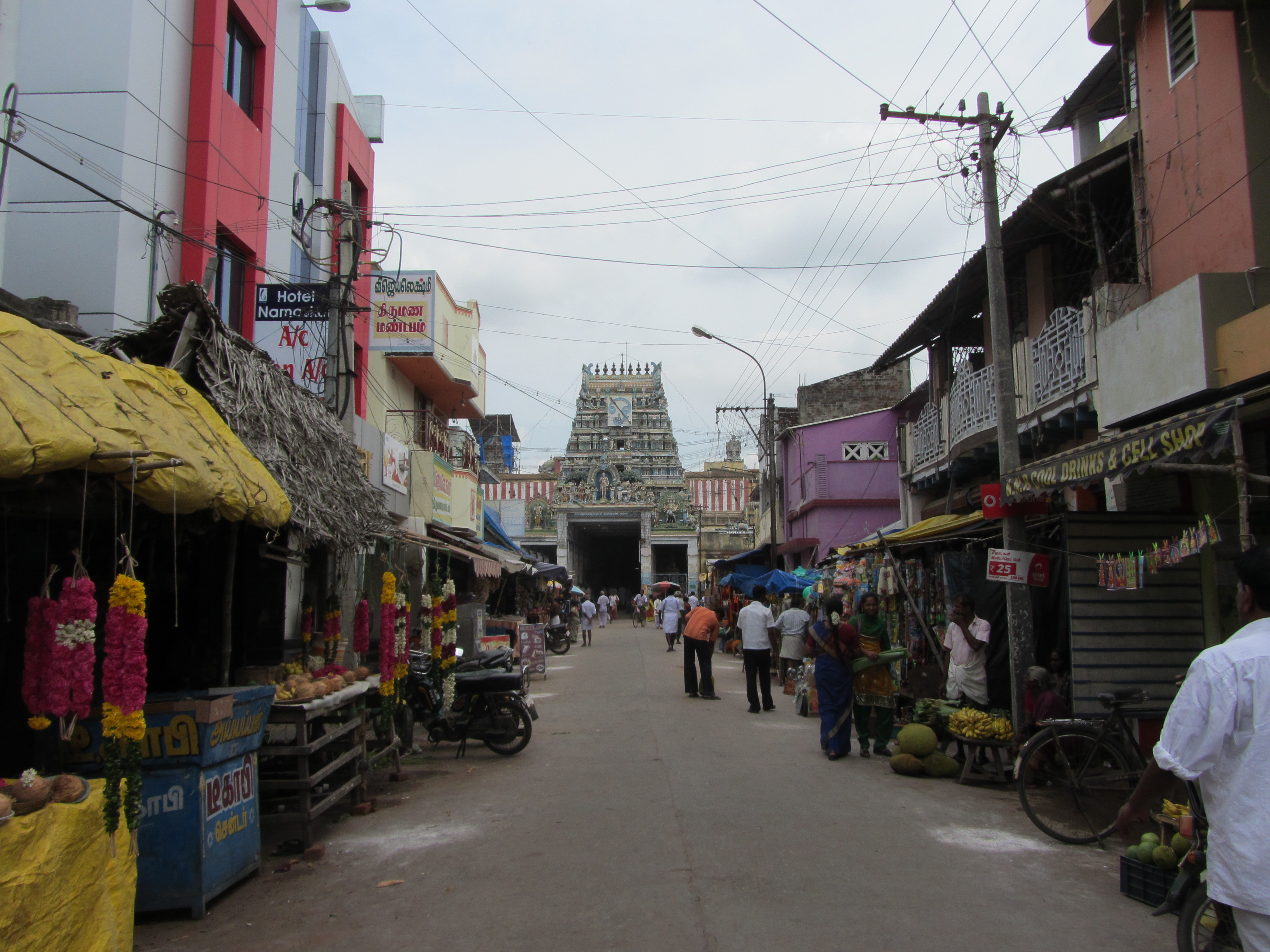 Swamimalai Swaminatha temple entrance street view. Both sides of the road are lined up with petty shops with local merchandise and puja items.